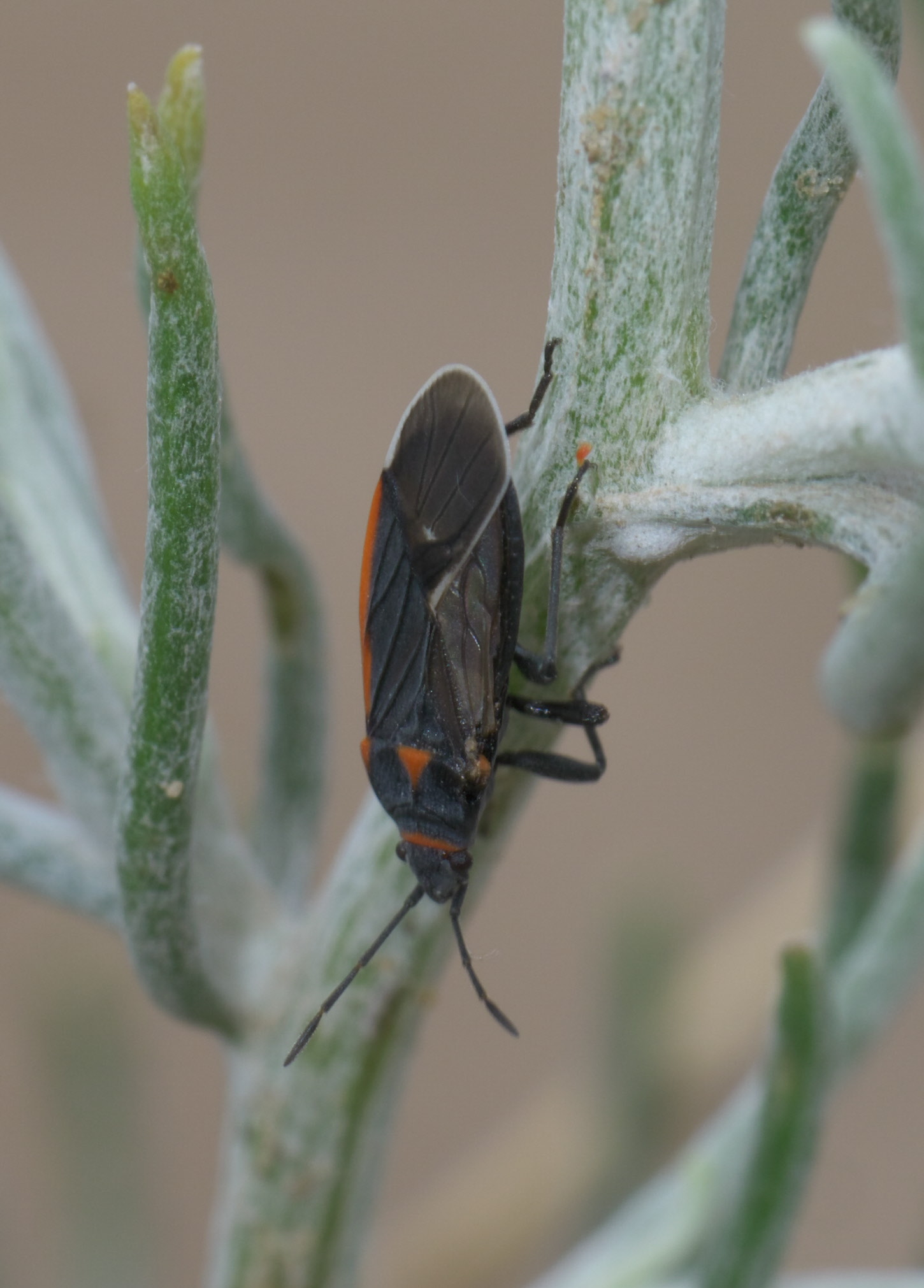 Melacoryphus lateralis, Family: Seed Bugs, ID Confidence: 93